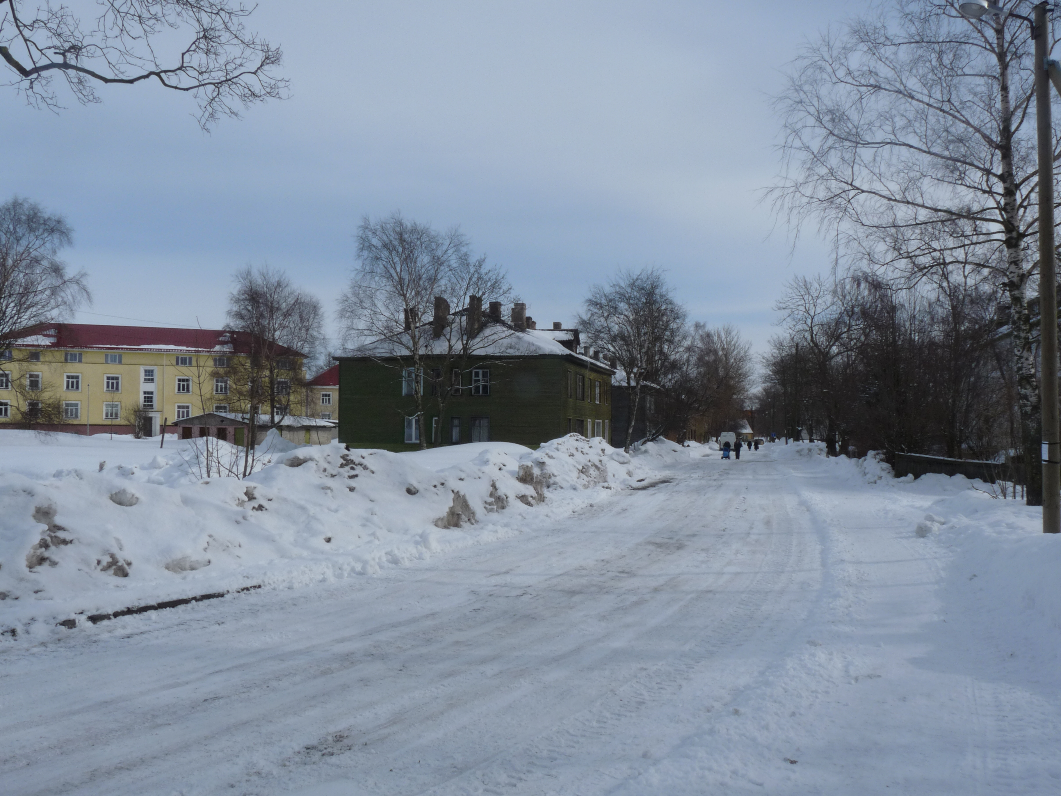 Kopliranna street